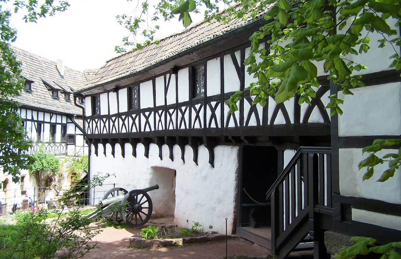 The parapet Elisabethengang.